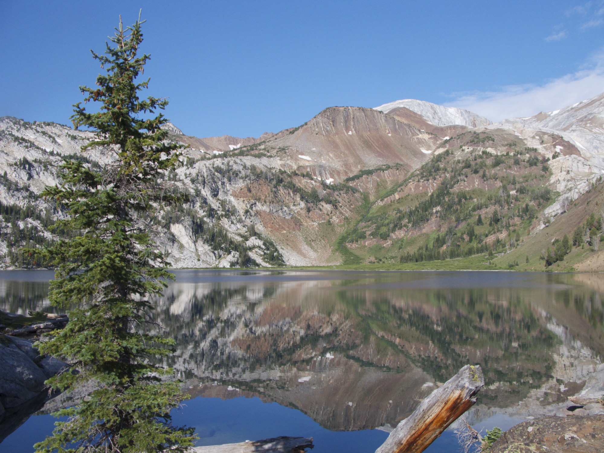 Ice Lake, Sacajawea Peak in Wallowa County, Oregon, Oregon